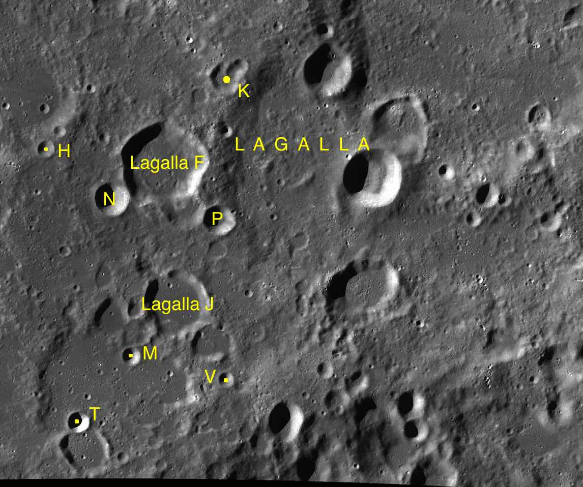 Part of the chart LAC-111 used for the presentation